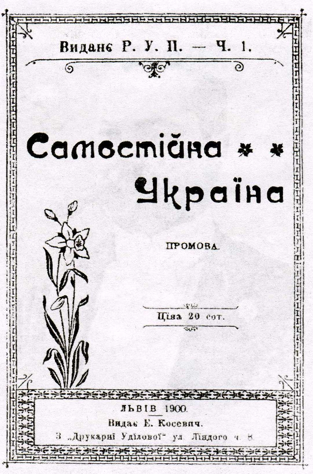 The bookcover of "Samostiyna Ukrayina" (Independent Ukraine), a brochure by a famous ukrainian politician Mykola Mikhnovskiy